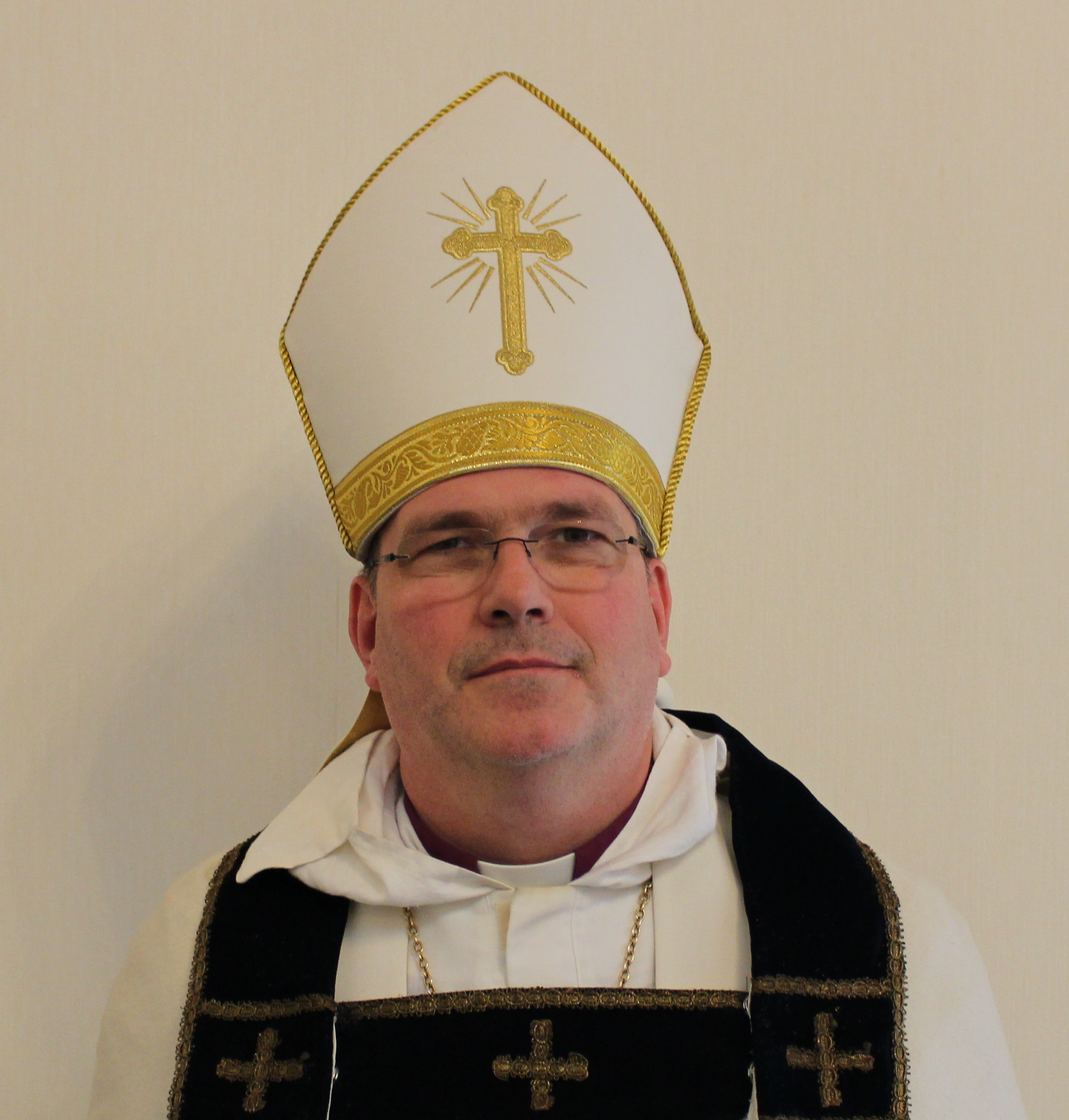 Bishop Hanss Martins Jensons.